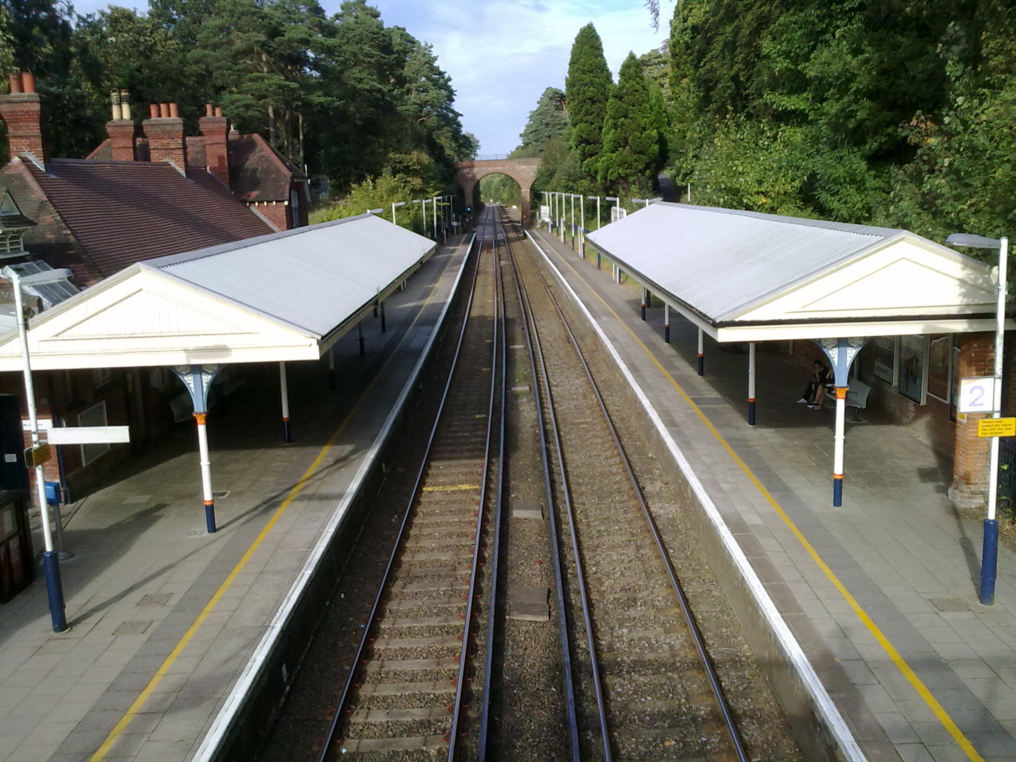 Oxshott Railway station.